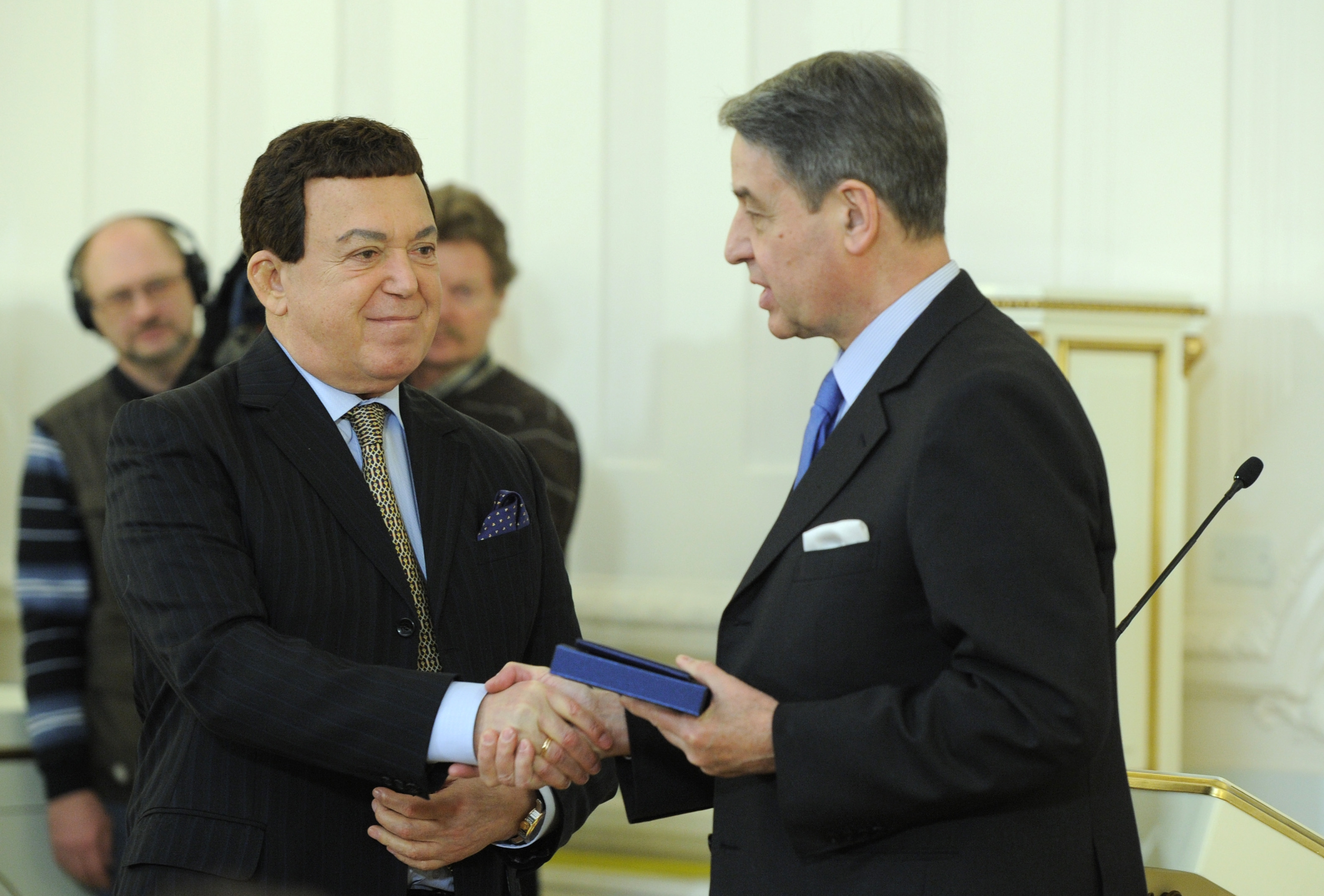 Culture Minister Alexander Avdeyev and singer Iosif Kobzon during the awards ceremony of the 2011 Russian Government Prizes in Culture at the Reception House of the Government of the Russian Federation.